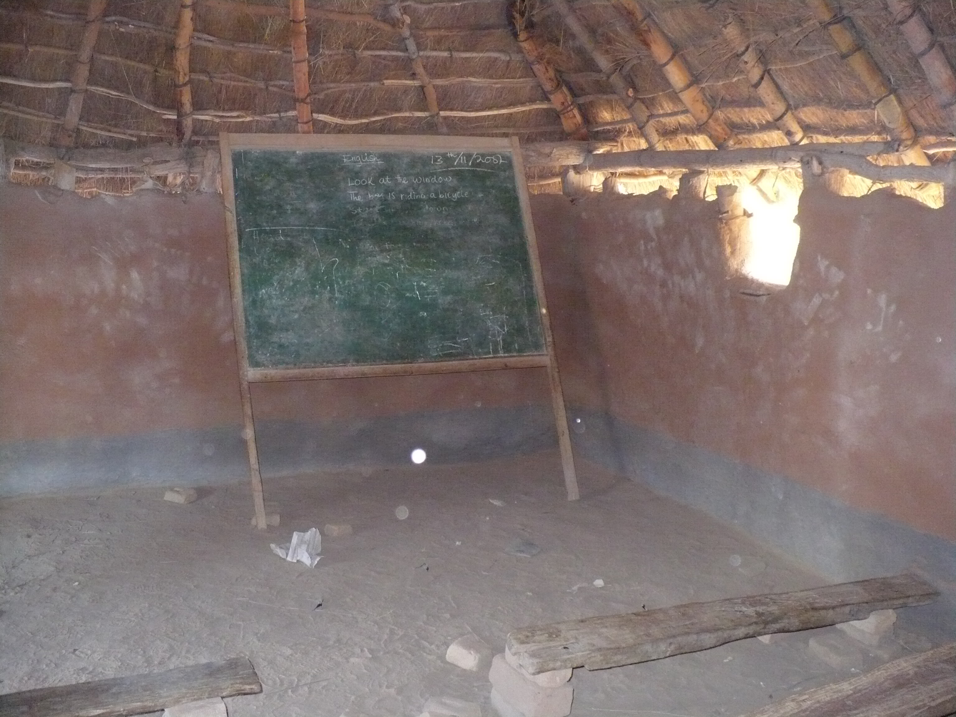 inside of a class in a remote village in Zambia. The room welcome kids from grade 1 to 5 and include sitting room and blackboard (english text on it)